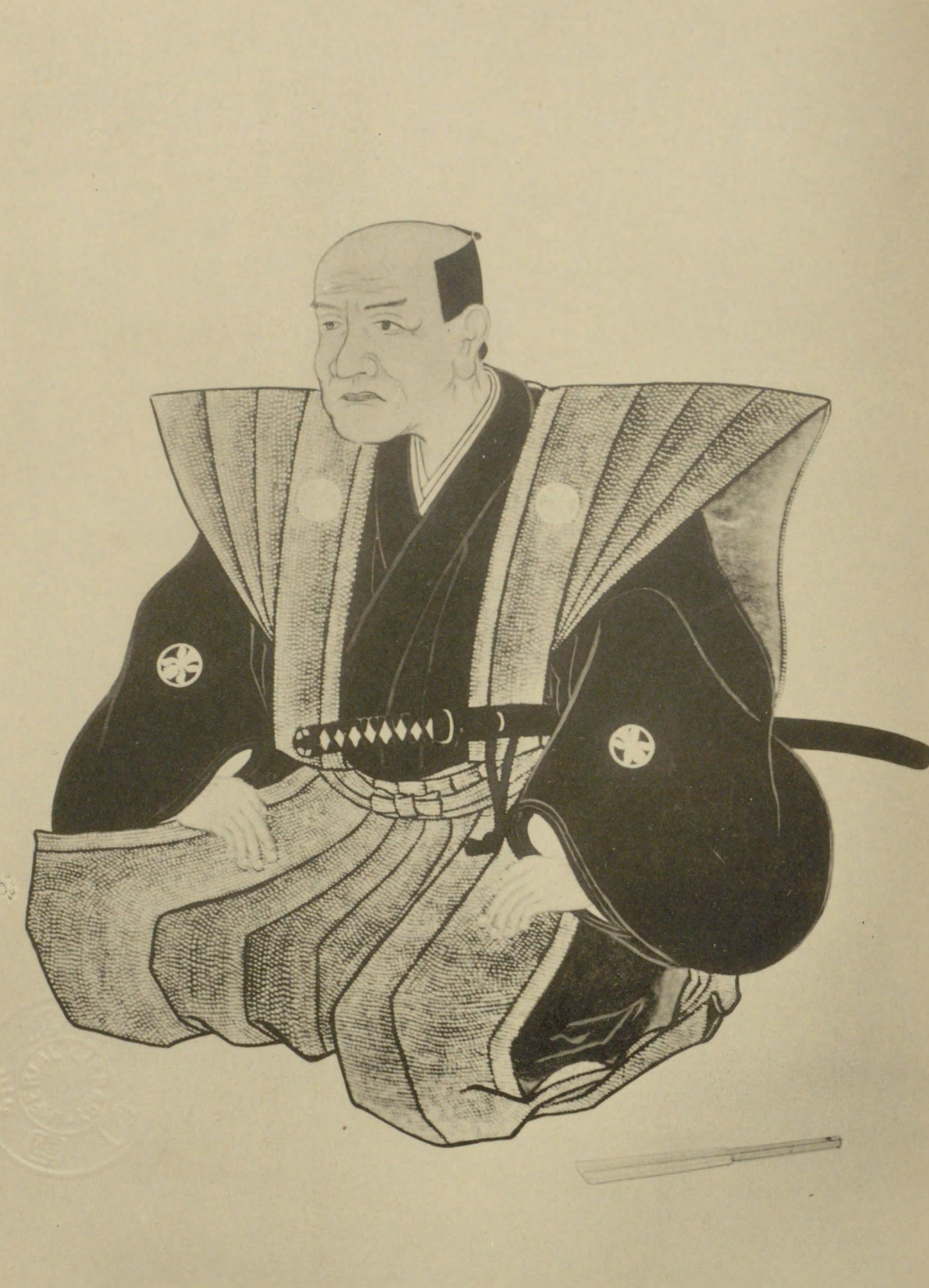 Portrait of Motoki Yoshinaga